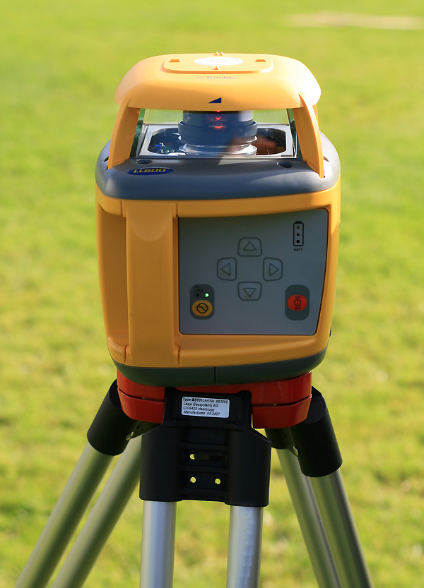 Trimble LL600 construction laser.